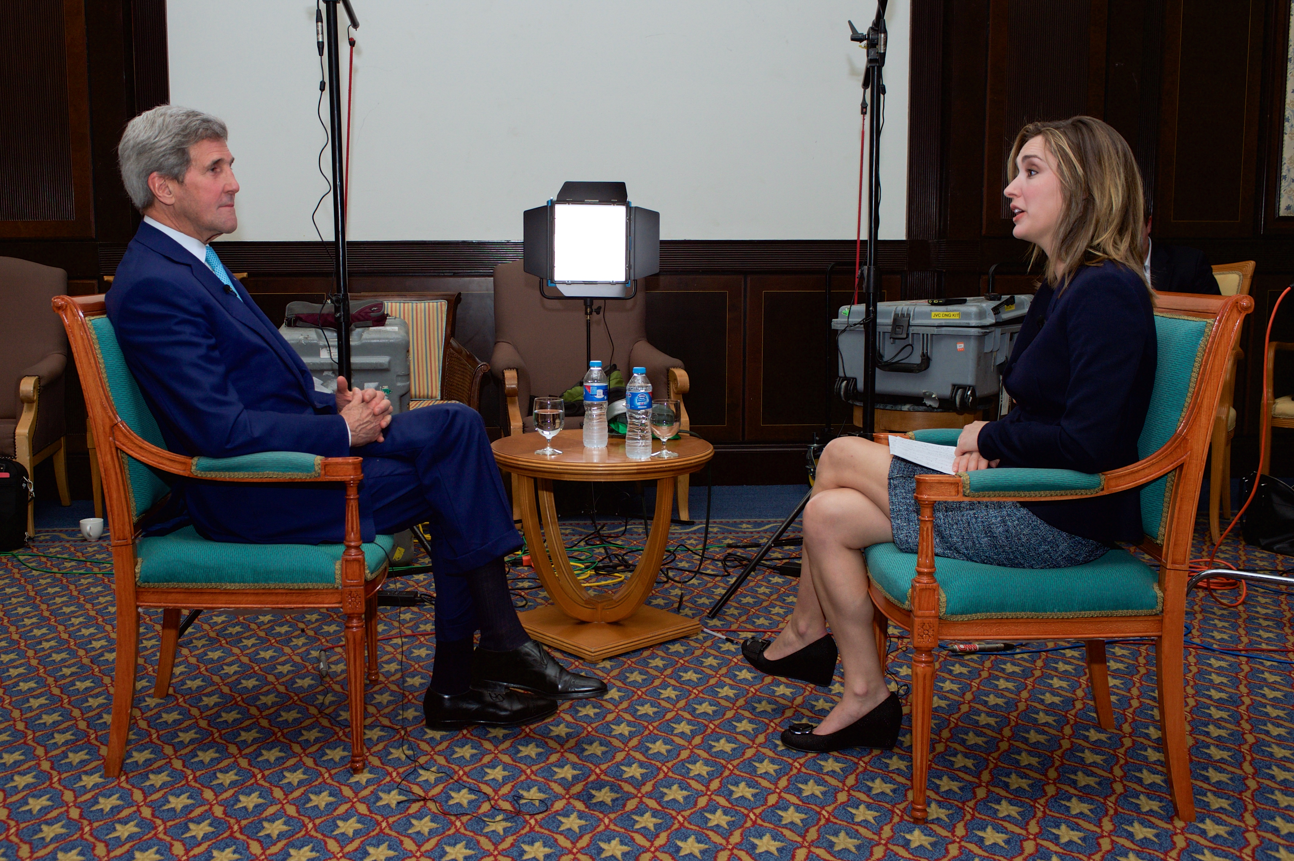 U.S. Secretary of State John Kerry sits with CBS News State Department Correspondent Margaret Brennan in Sharm el-Sheikh, Egypt, on March 14, 2015, following an interview focused on his upcoming negotiations with Iran over its nuclear program, as well as other foreign policy topics. [State Department Photo/Public Domain]